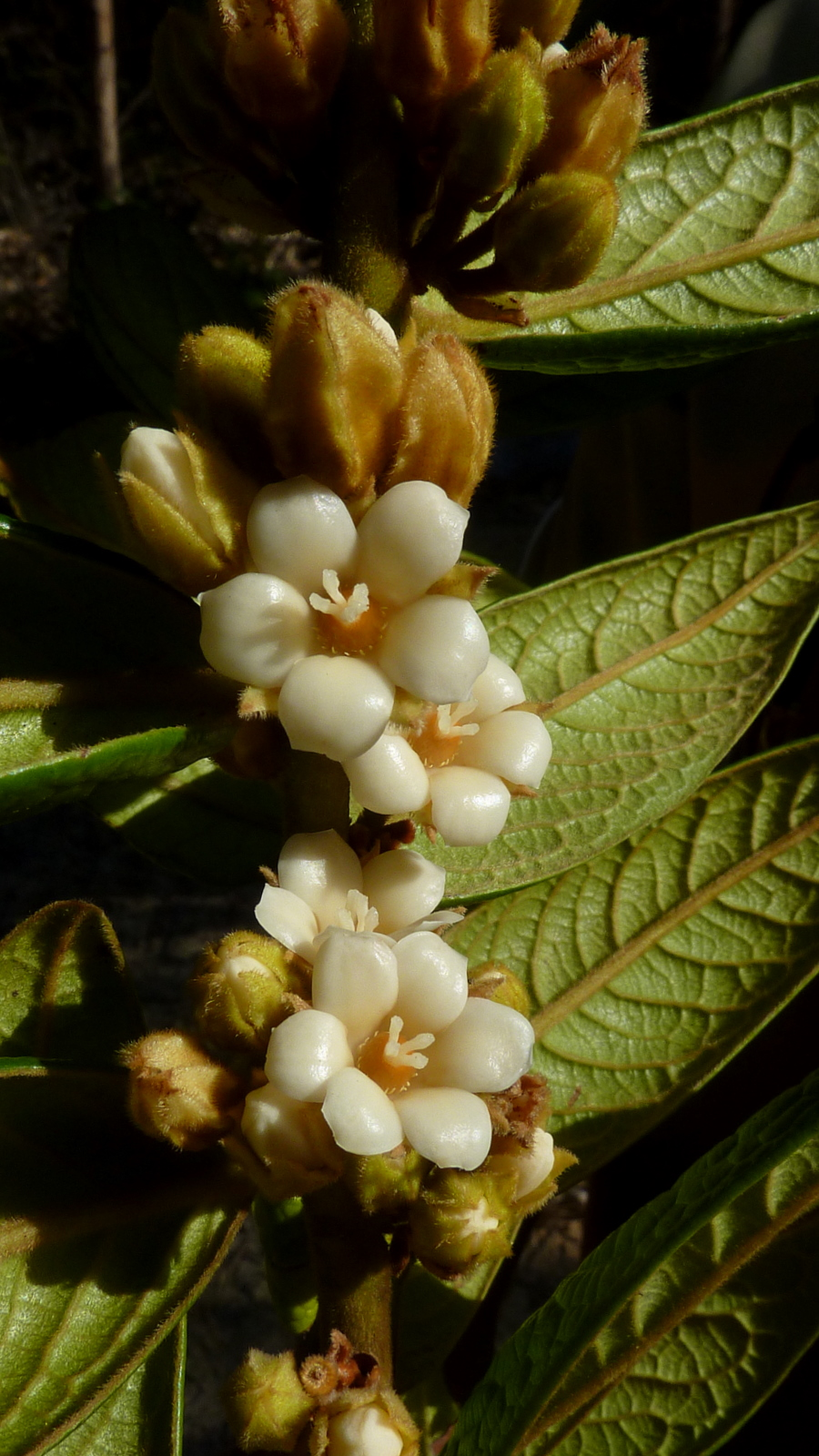 Note 5- and 6-merous flowers on the same branch.